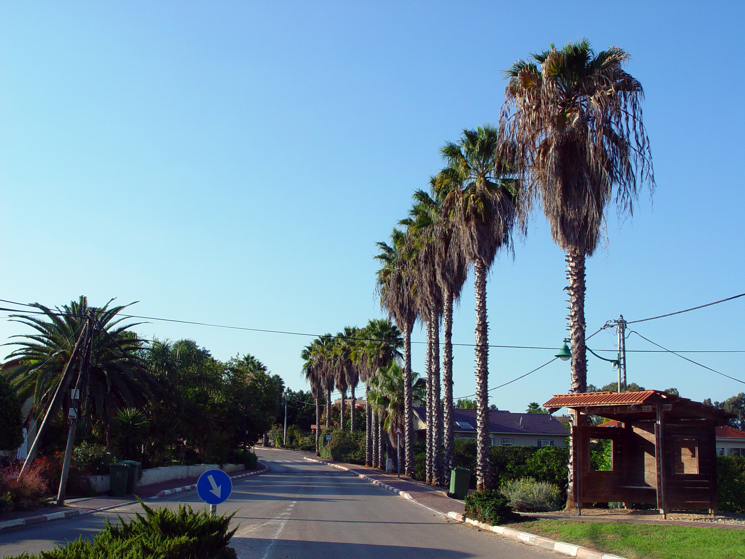 Tzofit (Israel)- Ha'Sdera Street